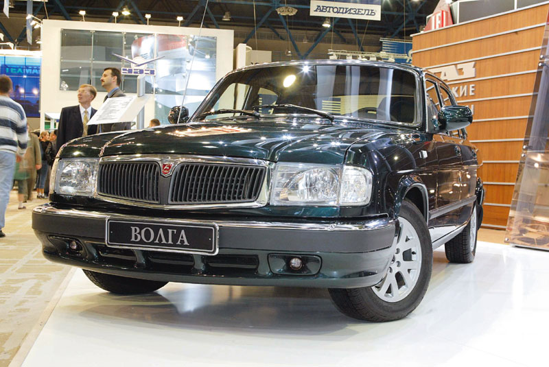 Project of post-2003 facelift.